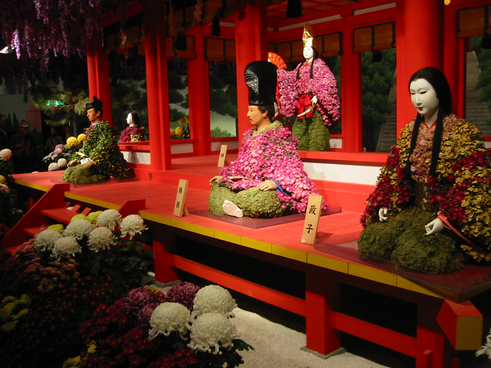 Hirakata kikuningyo